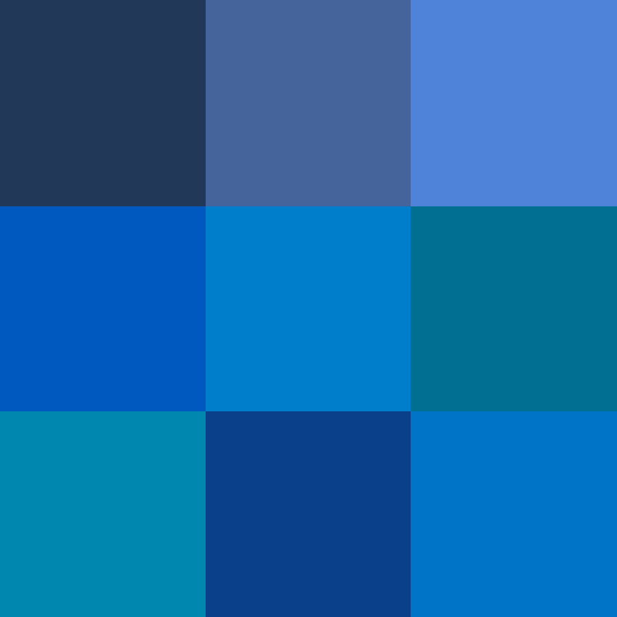 Nine different shades of blue. Intended use: to illustrate the look and scope of the colour blue.